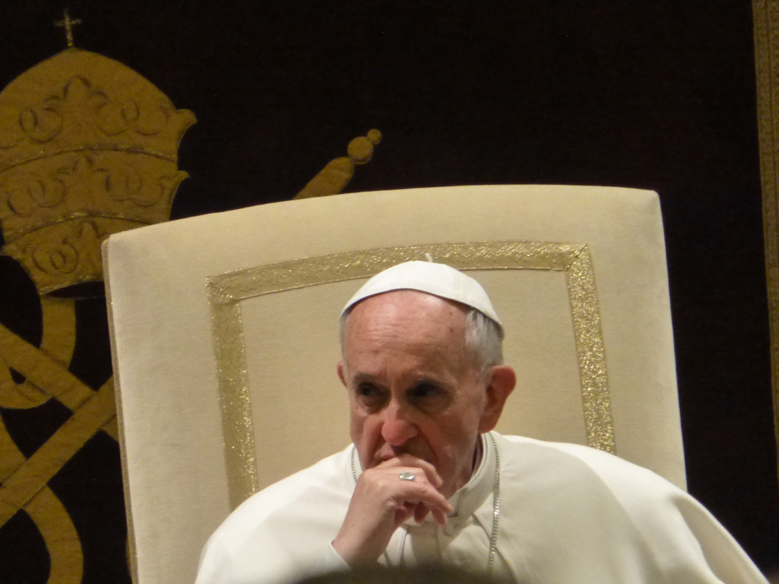 Pope Francis, Private audience of Centesimus Annus Pro Pontifice CAPP at Clementine Hall, Vatican City